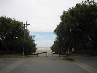 Entrada a la playa en calle Salta